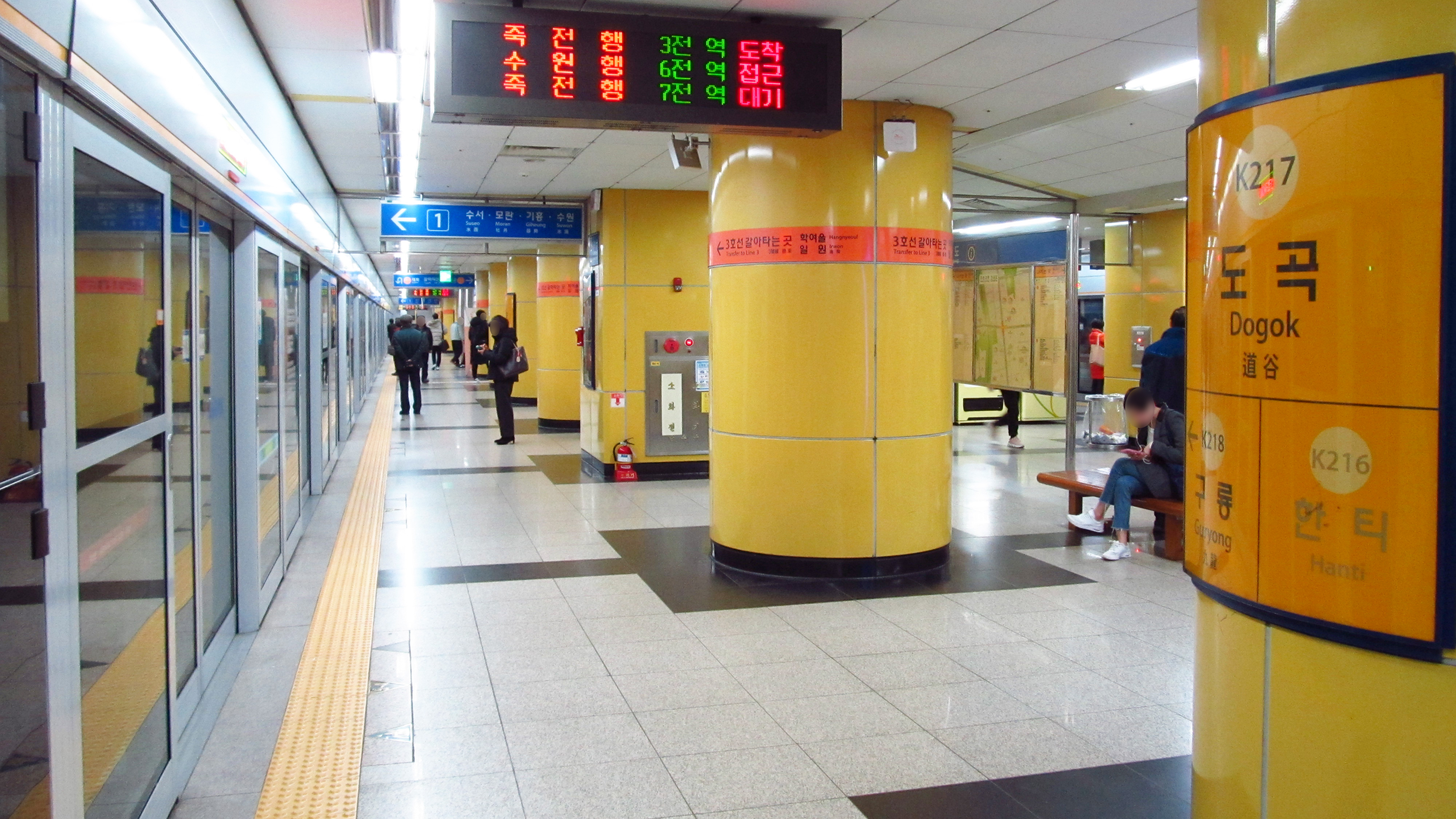 The platform at Dogok Station on Bundang Line in Gangnam-gu, Seoul, Republic of Korea(South Korea)